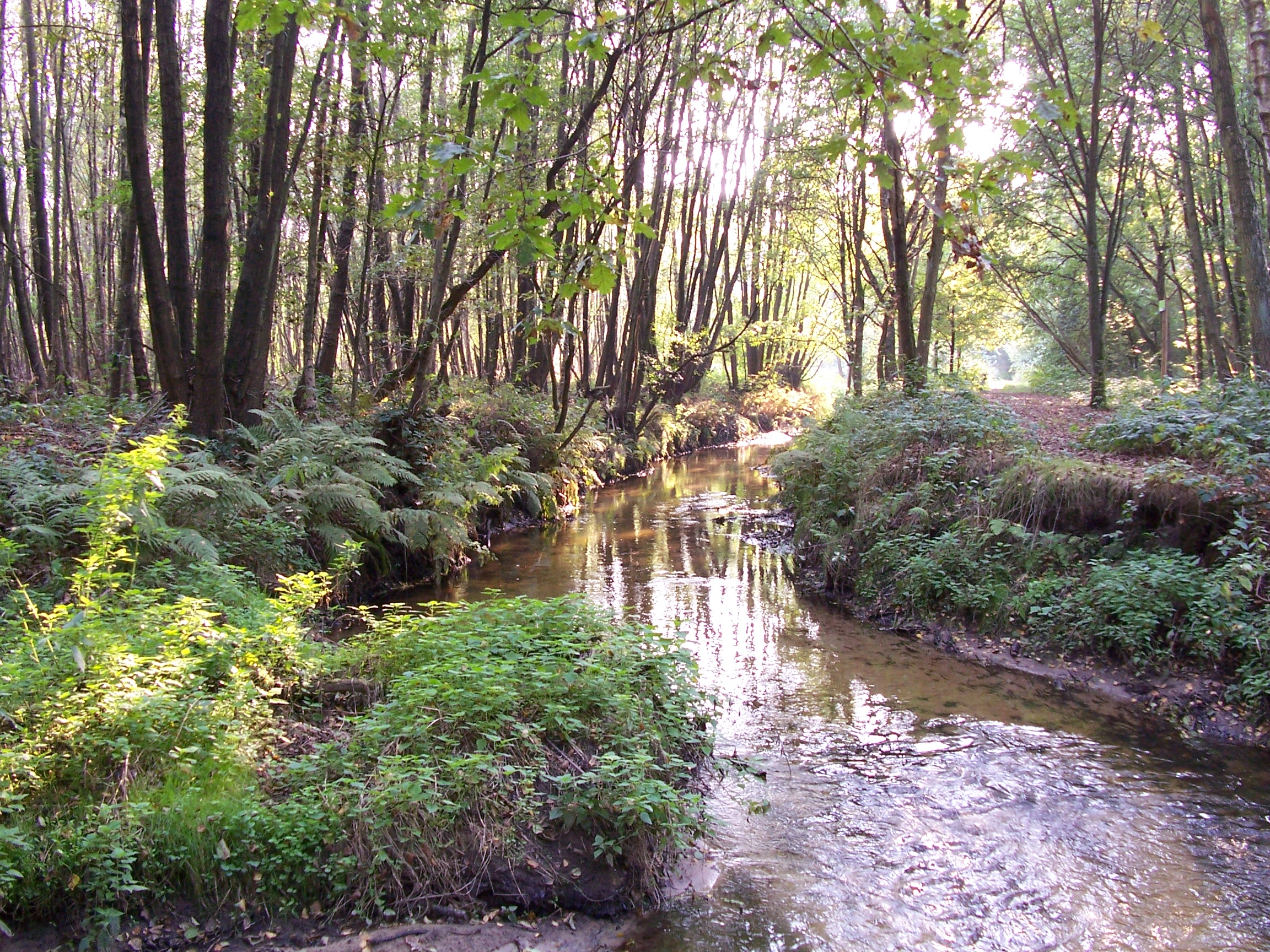 The Bosbeek between Opoeteren and Neeroeteren.